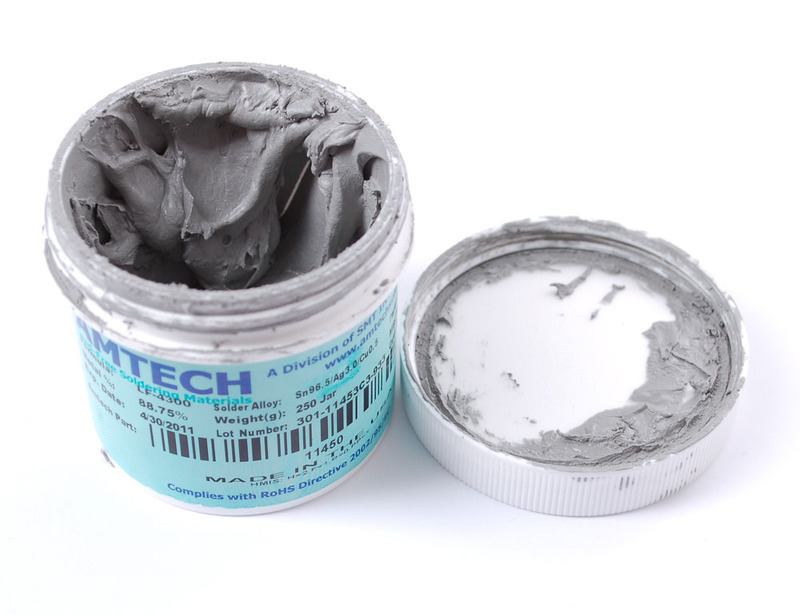 soldering paste, tin based, leadfree, RoHS, from AMTECH, 88.75 % solder, 96.5 % Sn 3.0 % Ag, 0.5 % Cu, 250 g jar, produced 2011.